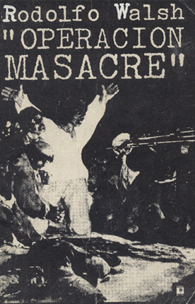 Cover art from first edition of Operación Masacre. This is a faithful reproduction of Image:Francisco de Goya y Lucientes 023.jpg, which is in the public domain worldwide. Title has no creative input.